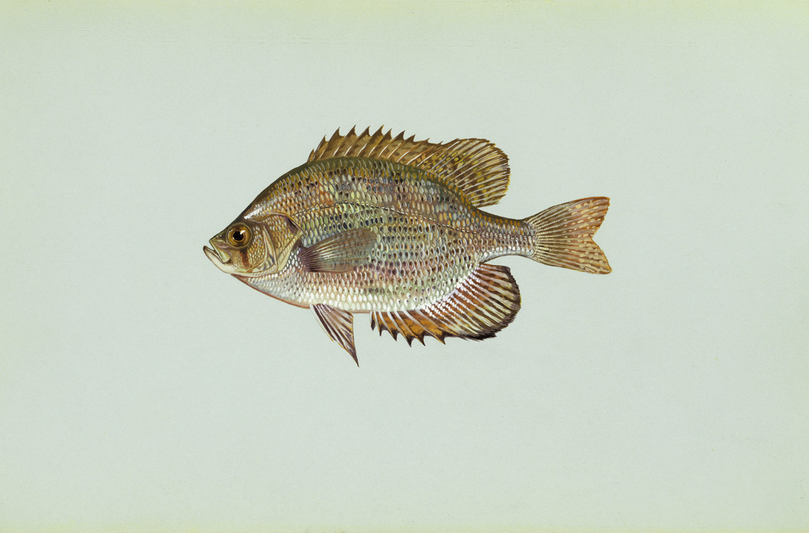 Flier (Centrarchus macropterus)